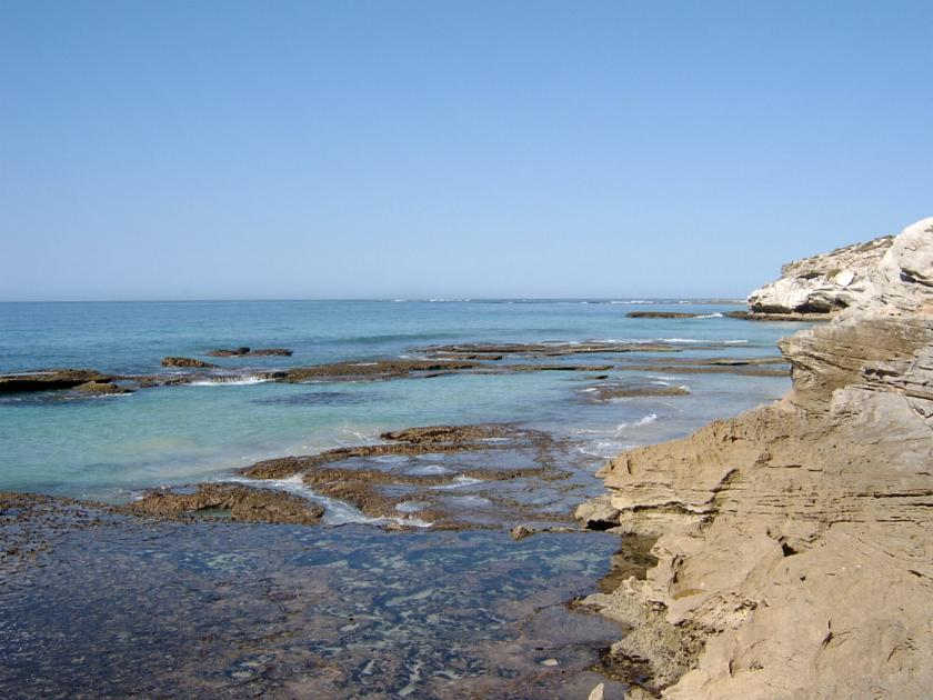 Arniston, Western Cape, South Africa. View looking West towards Waenhuiskranz.